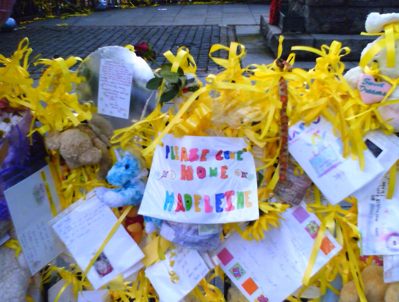 Tributes to Madeleine McCann in her hometown of Rothley taken on 17 May 2007.